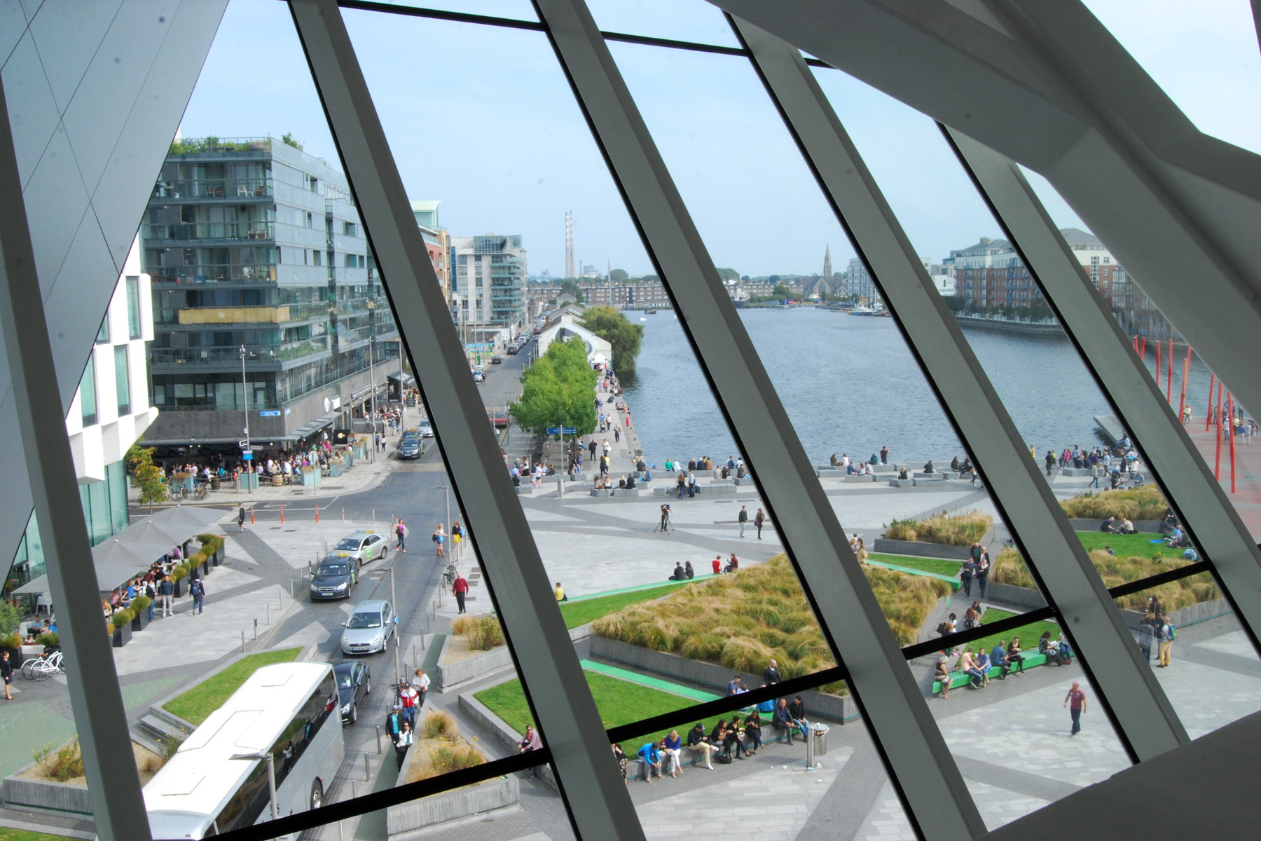 View from inside the Bord Gais theatre at the TEDxDubin conference (taken by Sandra, on Flickr)